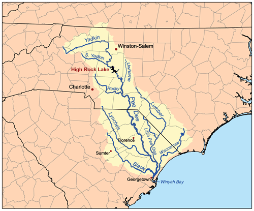 Peedee watershed showing High Rock Lake